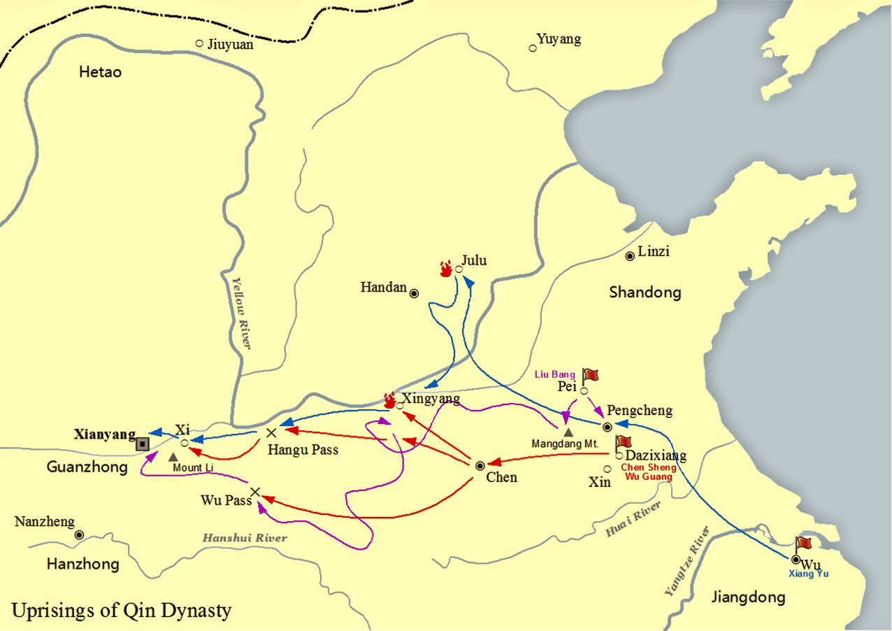 Uprisings of Qin Dynasty, including uprisings of Dazexiang (Chen Sheng and Wu Guang), Liu Bang and Xiang Yu.